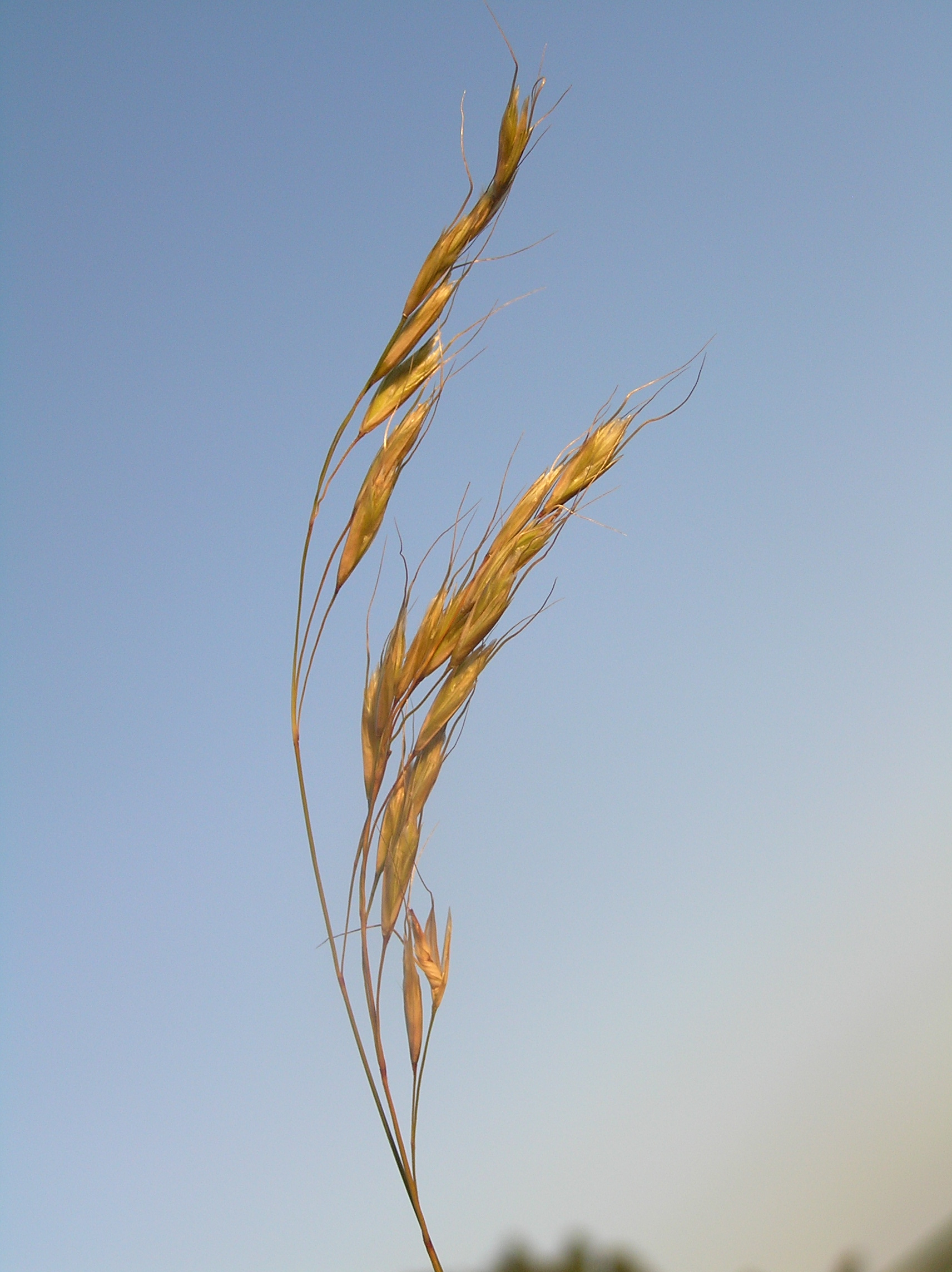 Helictotrichon desertorum, the hill Šibeničník near Mikulov, Southern Moravia, Czech Republic